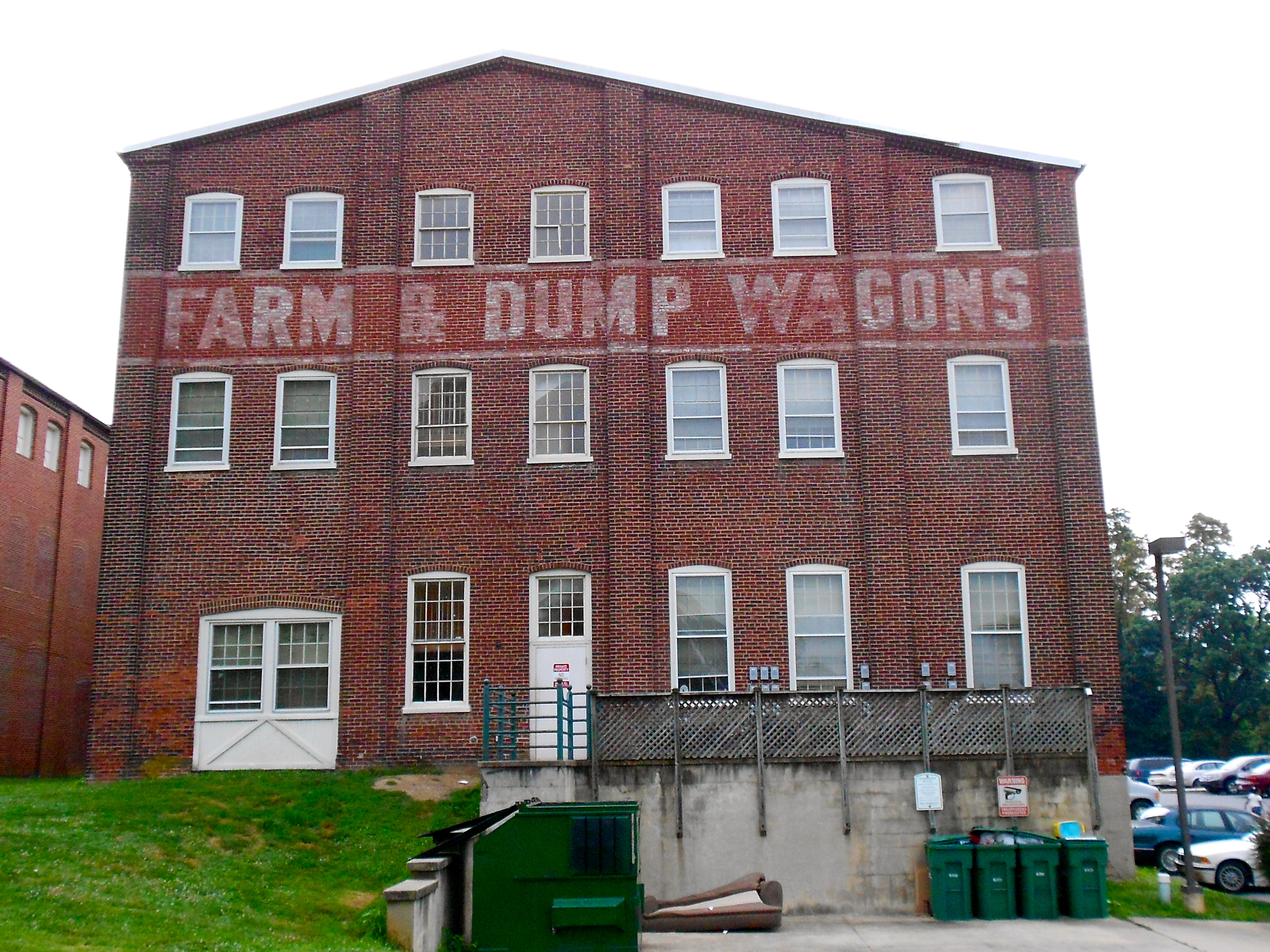 Columbia Wagon Works, listed on the NRHP on February 2, 2001. Located at 920 Plane Street, Columbia, Lancaster County, Pennsylvania. (most easily accessed via 5th street or Manor Ave.) Manufactured horse drawn wagons and then after WWI attempted car body manufacture. Converted into apartments. There are 6 big buildings aligned in an H shape and 1 smaller, separate building.